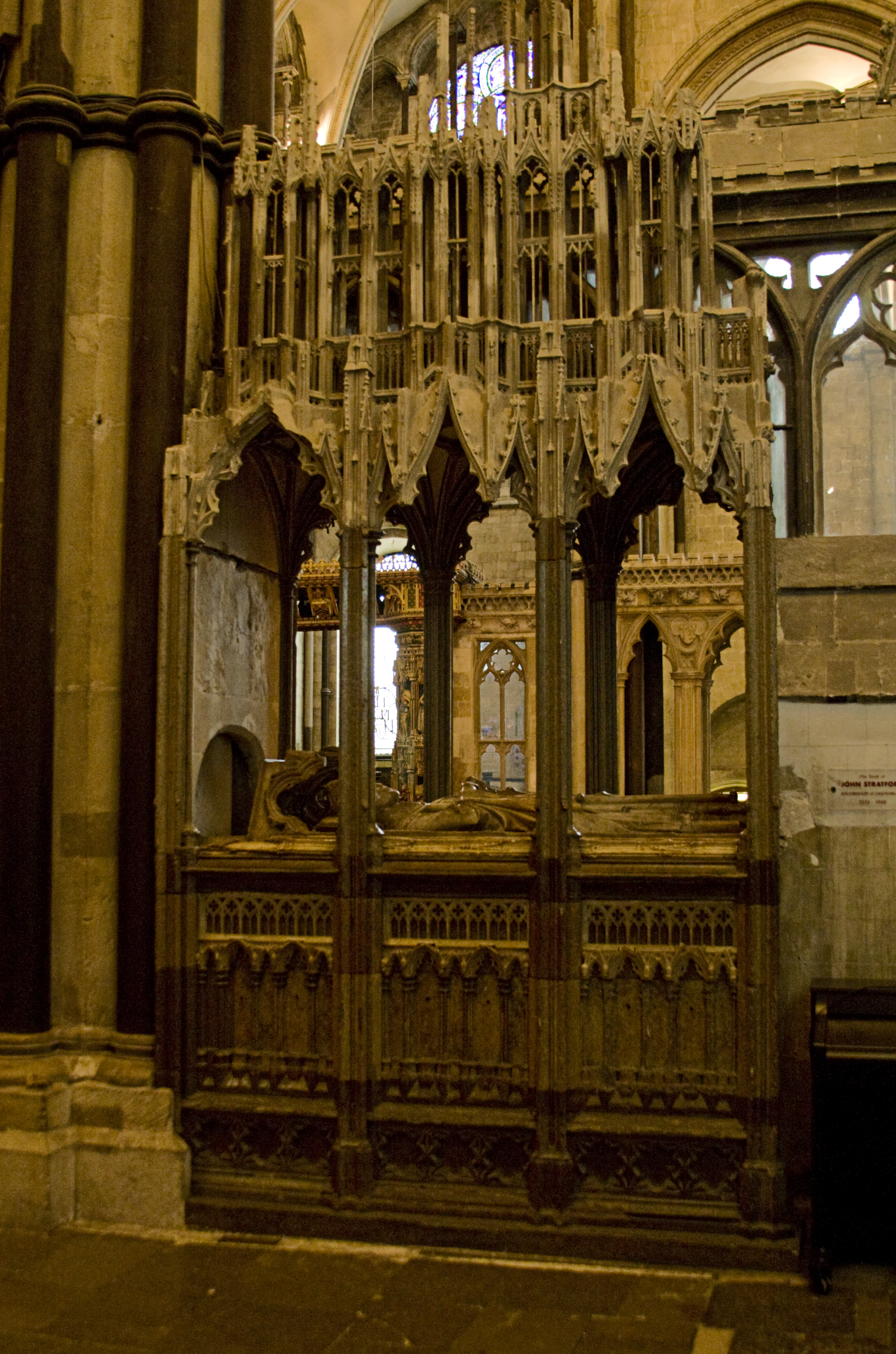 Tomb of John Stratford, Archbishop of Canterbury, from Canterbury Cathedral